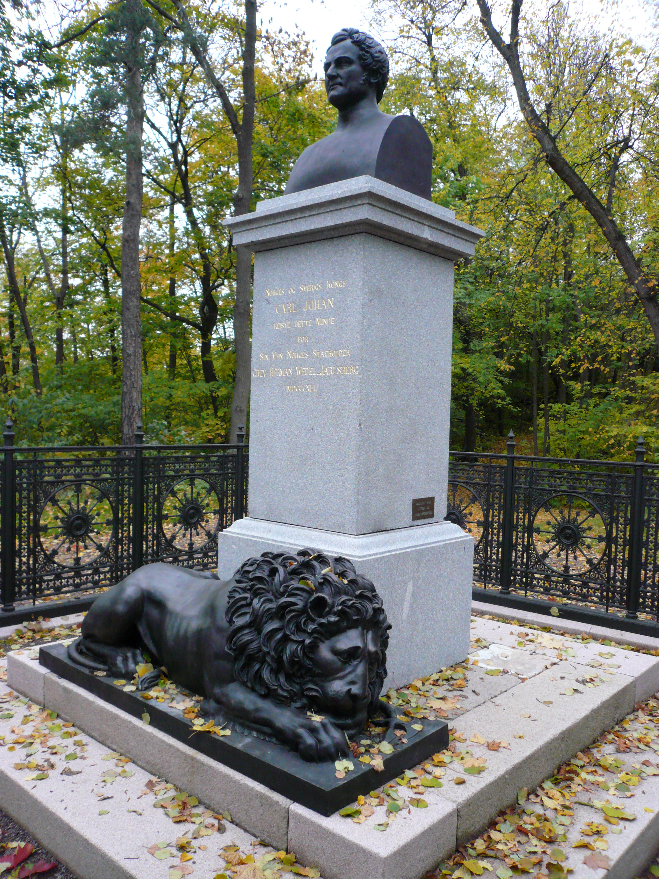 Monument of Wedel-Jarlsberg in Oslo after restoration (2007).